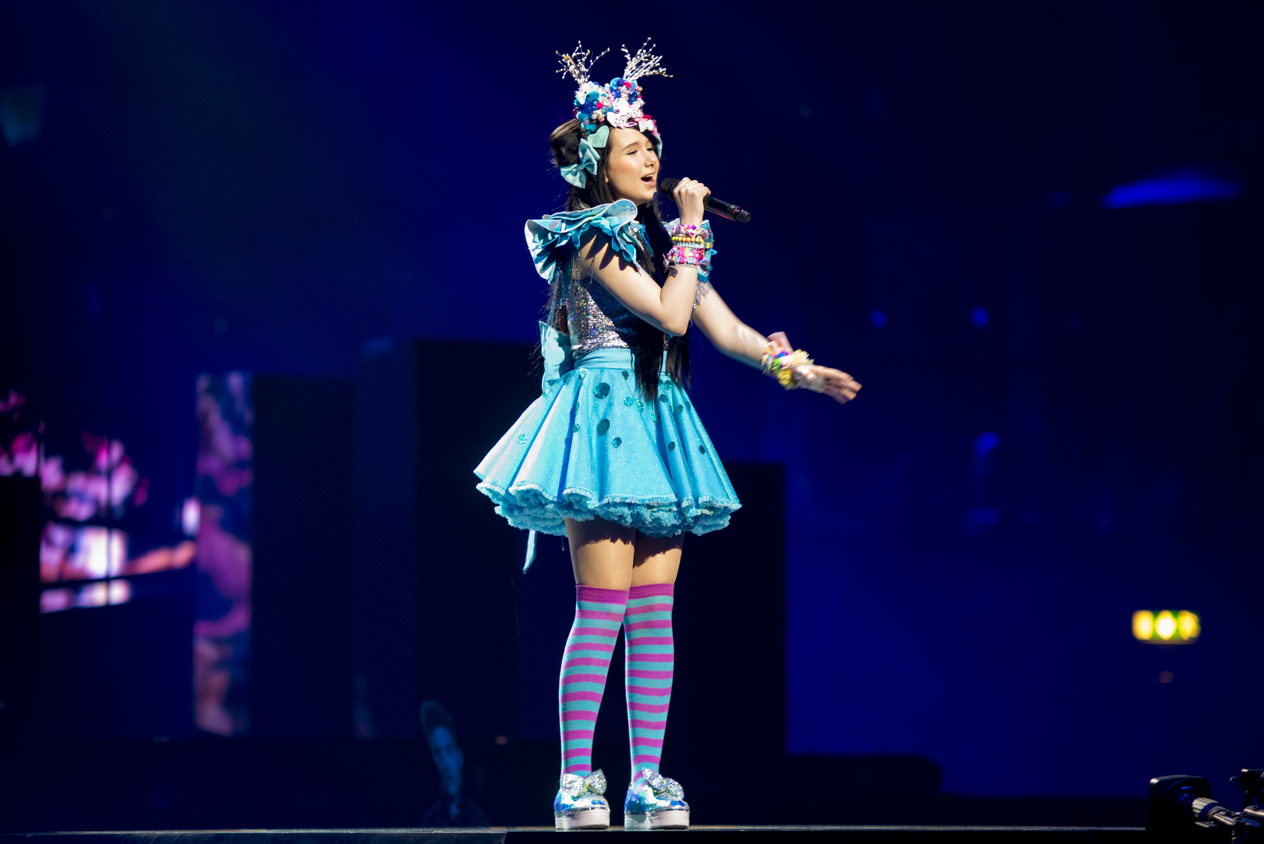 Jamie-Lee representing Germany with the song "Ghost" during a rehearsal for "the Big Five" in the Eurovision Song Contest 2016 in Stockholm. (Help translate this text)